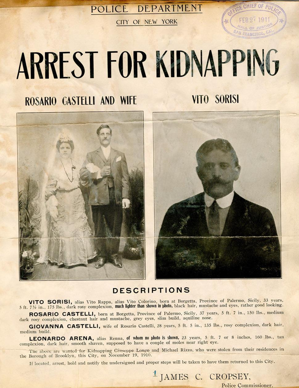 Wanted Poster for Vito Sorisi, Rosario Castelli (b.1874) and his wife Giovanna Castelli for being the child kidnappers of Giuseppe Longo and Michael Rizzo in New York City